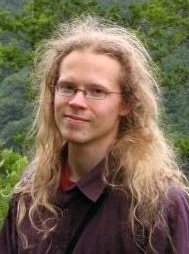 Petter Morottaja, Sámi author.